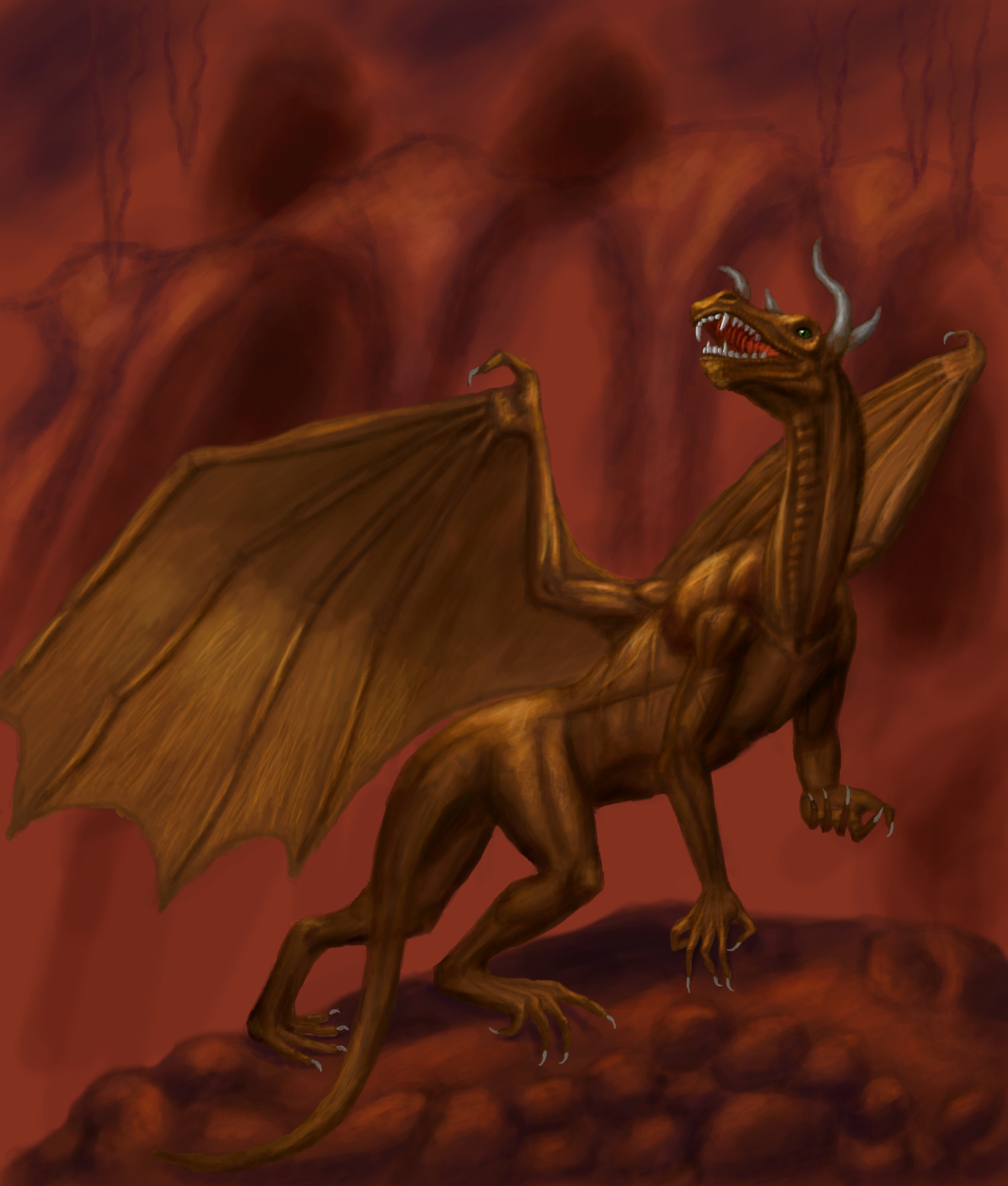 Dragon